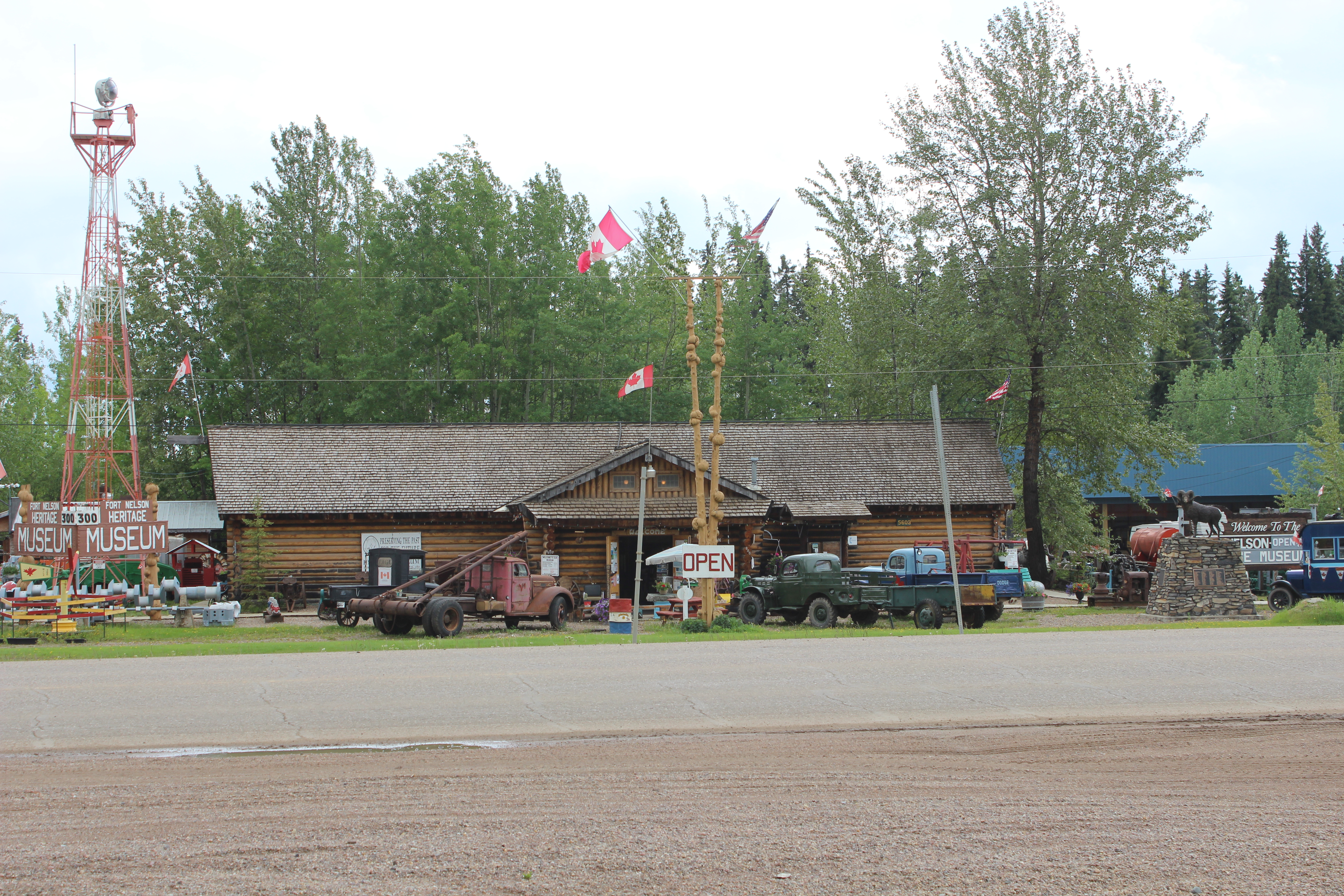 Photo of the Fort Nelson Museum